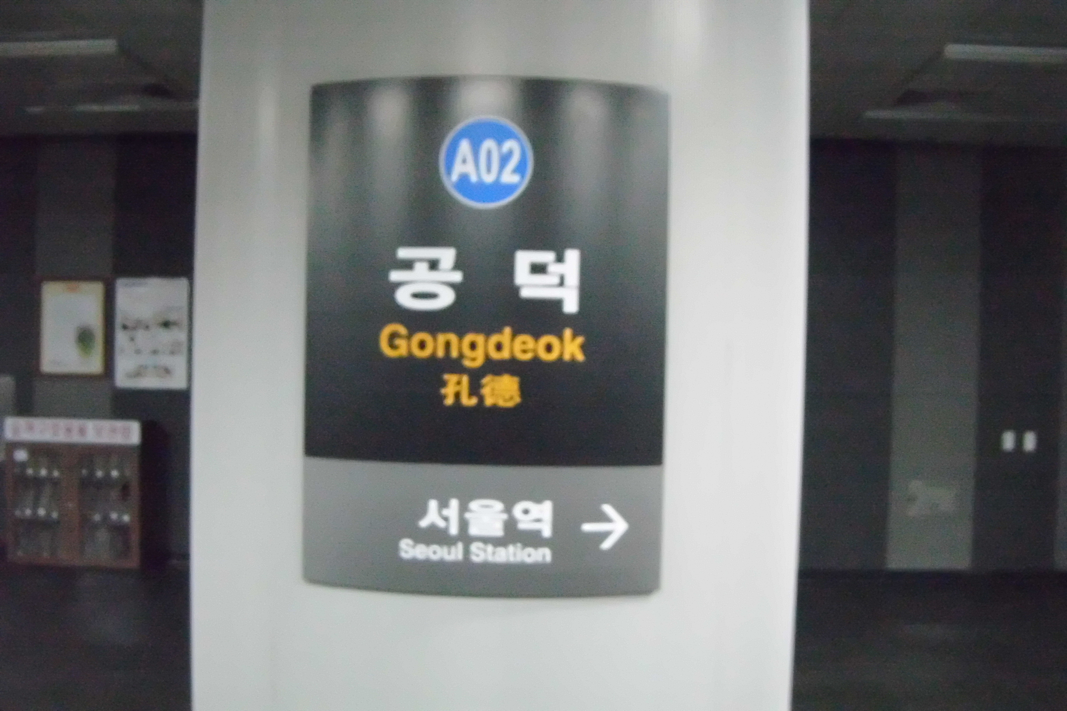 AREX Gongduk Station (train to Seoul)